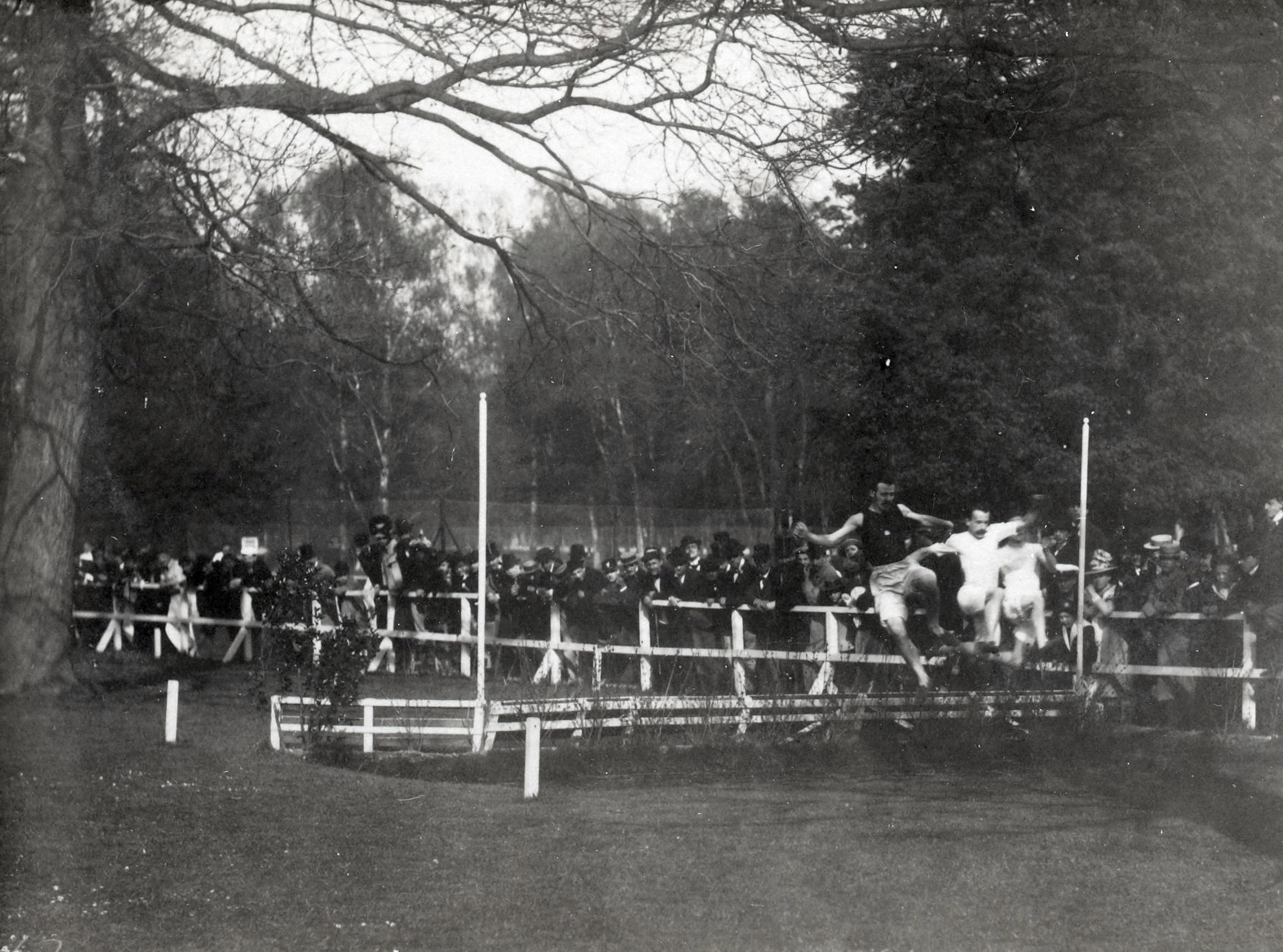 [Collection Jules Beau. Photographie sportive] : T. 6. Année 1898 / Jules Beau : F. 40. Racing-club de France - Grand Steeple-chase National, à Paris (bois de Boulogne - RCF), en 1898 (1er Freemann, 2e Genet, 3e Ocudo)